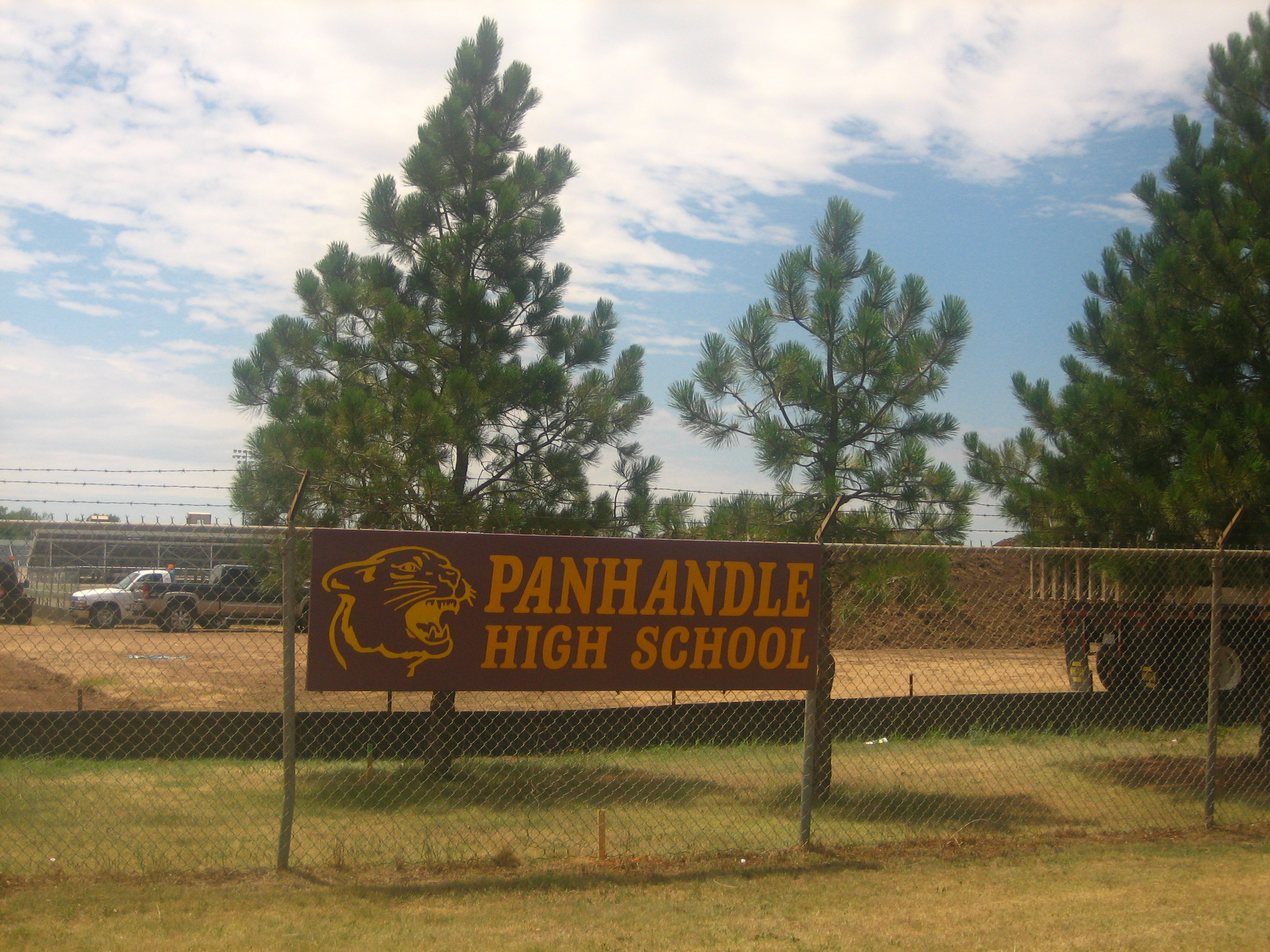 Panhandle, TX, High School sign